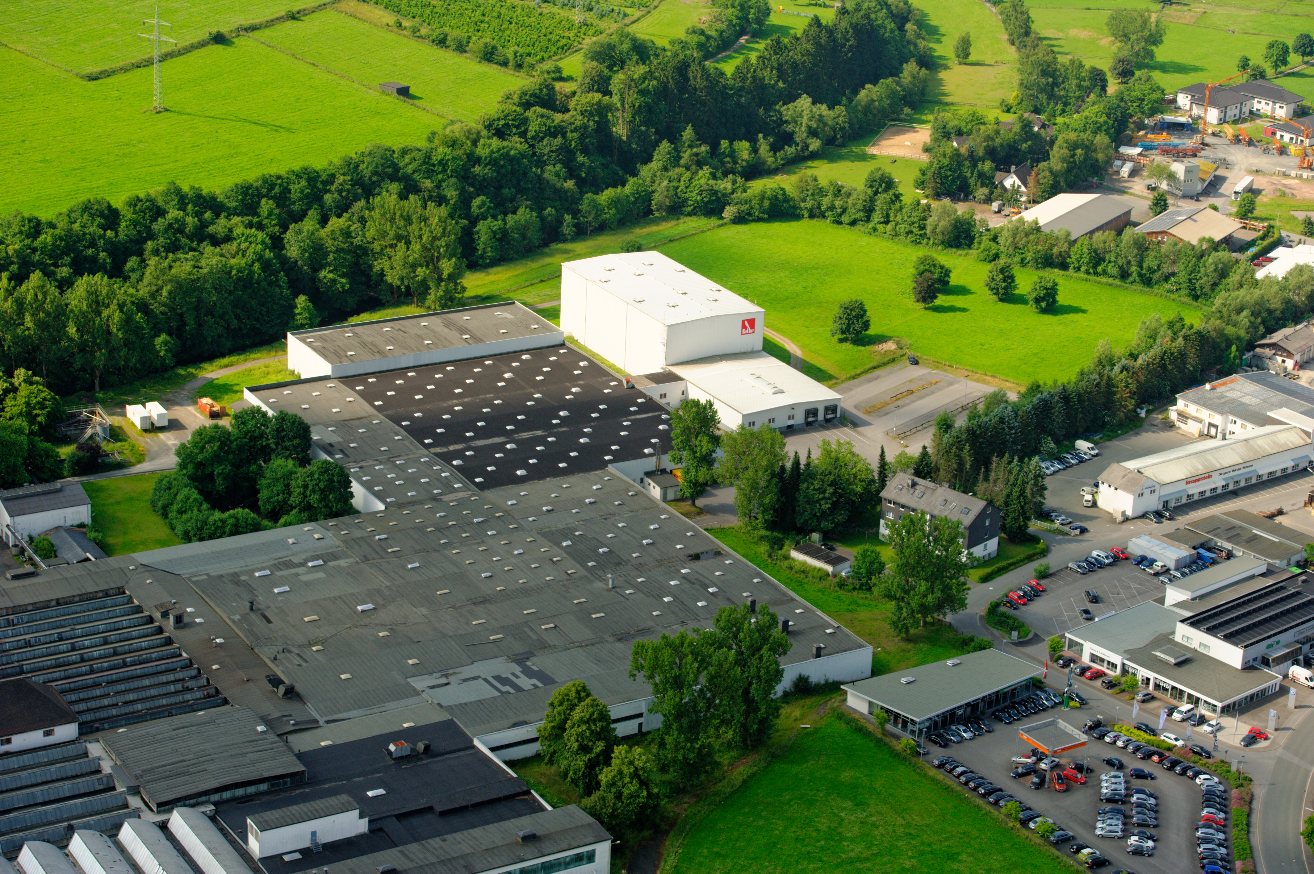 Fotoflug Sauerland-Ost, Schmallenberg, Hochregallager Fa. Falke The making of this document was supported by the Community-Budget of Wikimedia Germany.